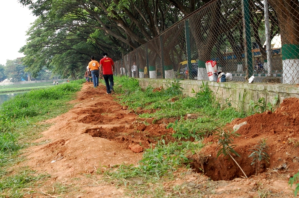 Around 100 sapling were planted in Bagmane Tech Park Lake by Singing Skylarks Volunteers and Motorola Employees